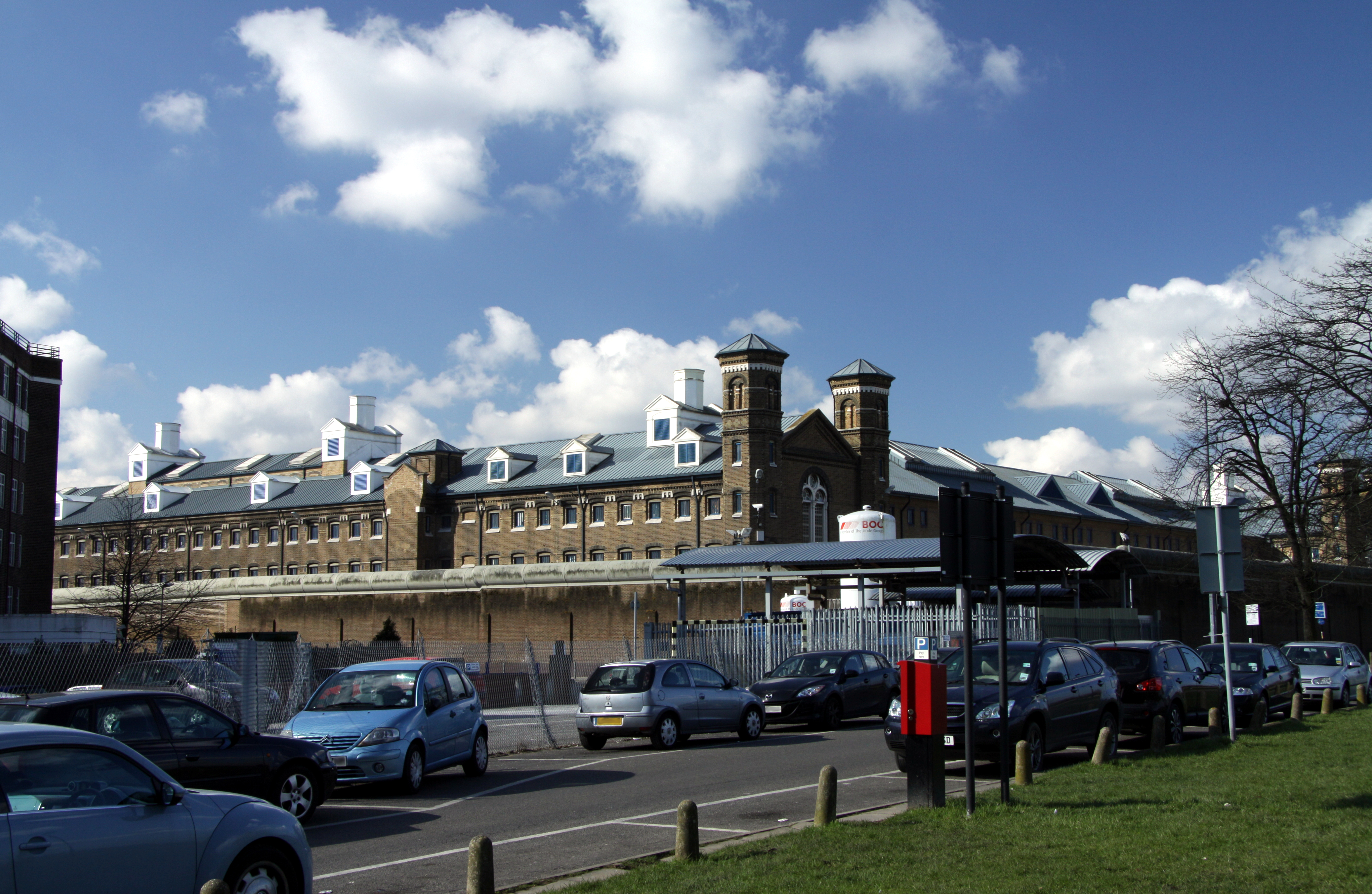 HM Prison Wormwood Scrub in London, England, Great Britain - Google Maps - Google Earth